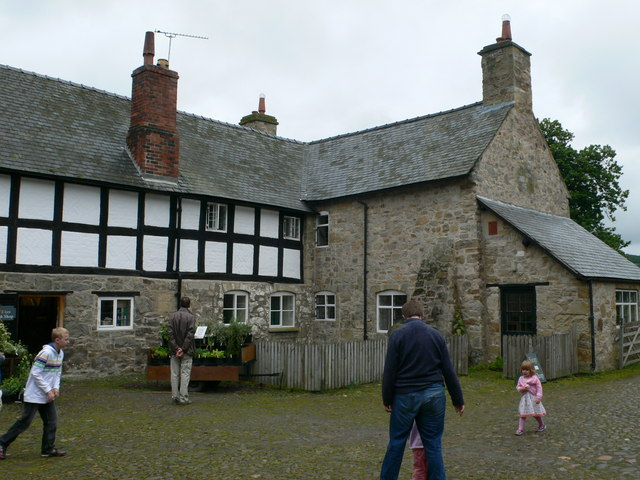 Home Farm, Chirk Castle